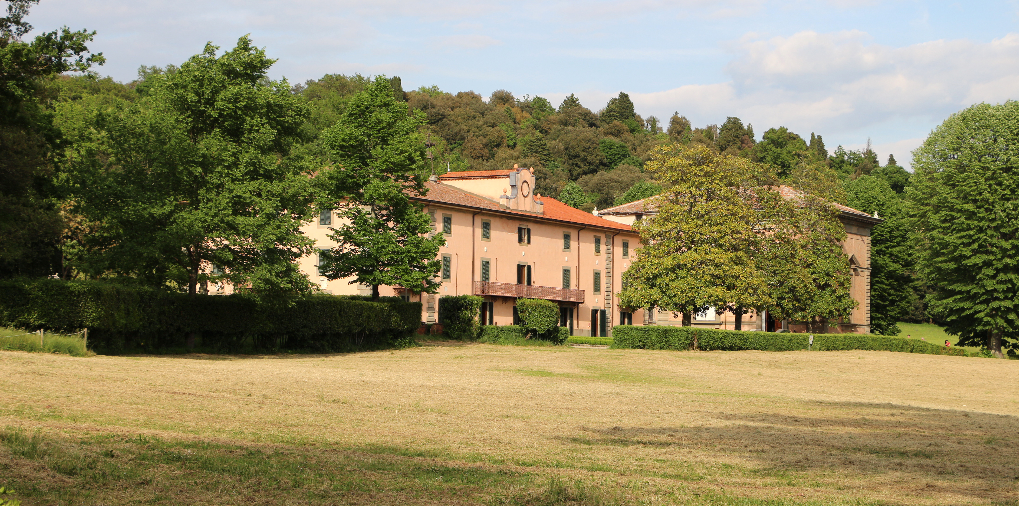 Villa Demidoff (Pratolino)